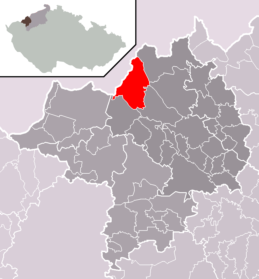 Location of Hora Svatého Šebestiána municipality within Chomutov District and administrative area of Chomutov as a Municipality with Extended Competence.